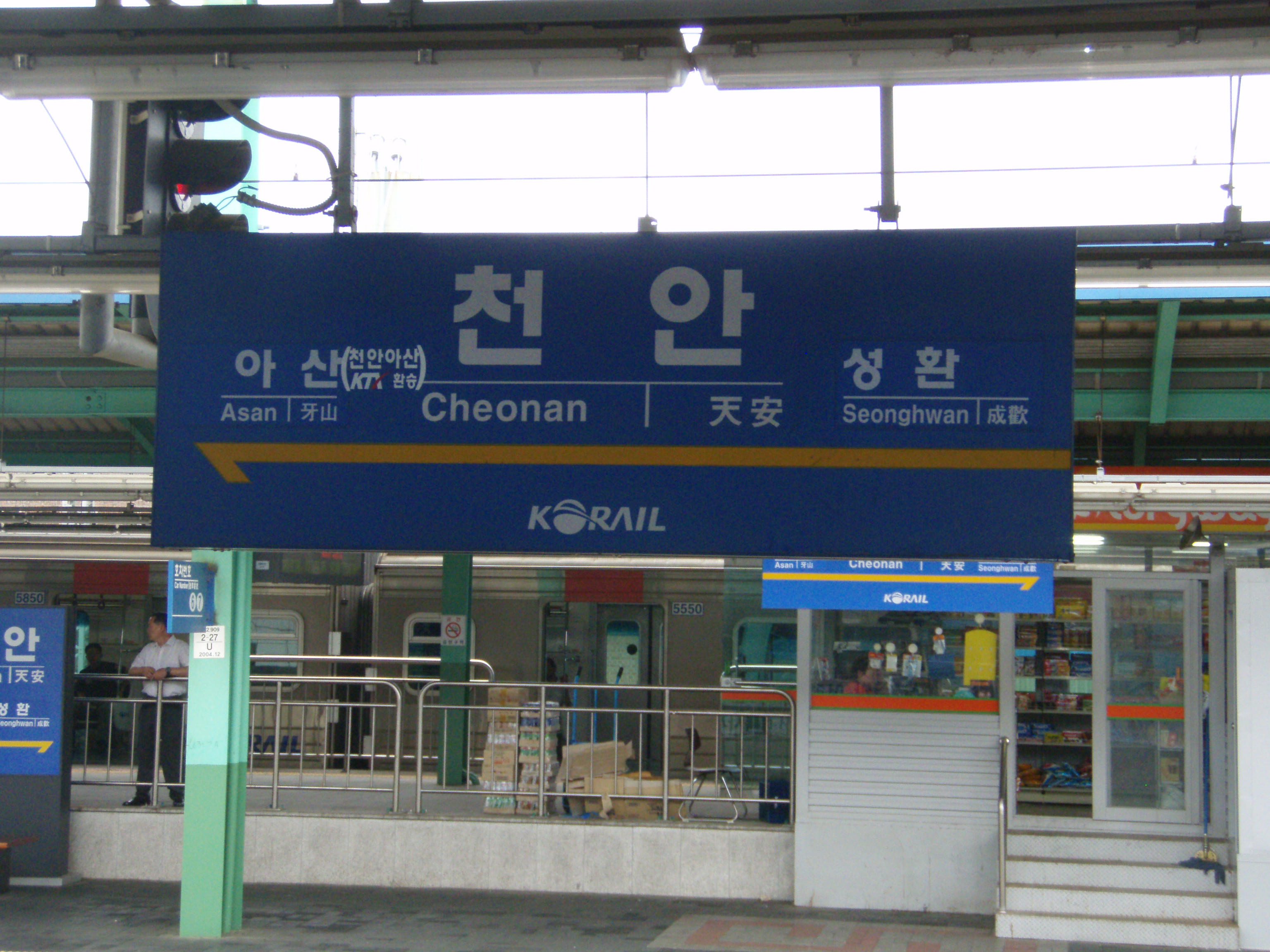 KORAIL Gyeongbu Line Janghang Line Seoul Subway Line 1 Cheonan Station